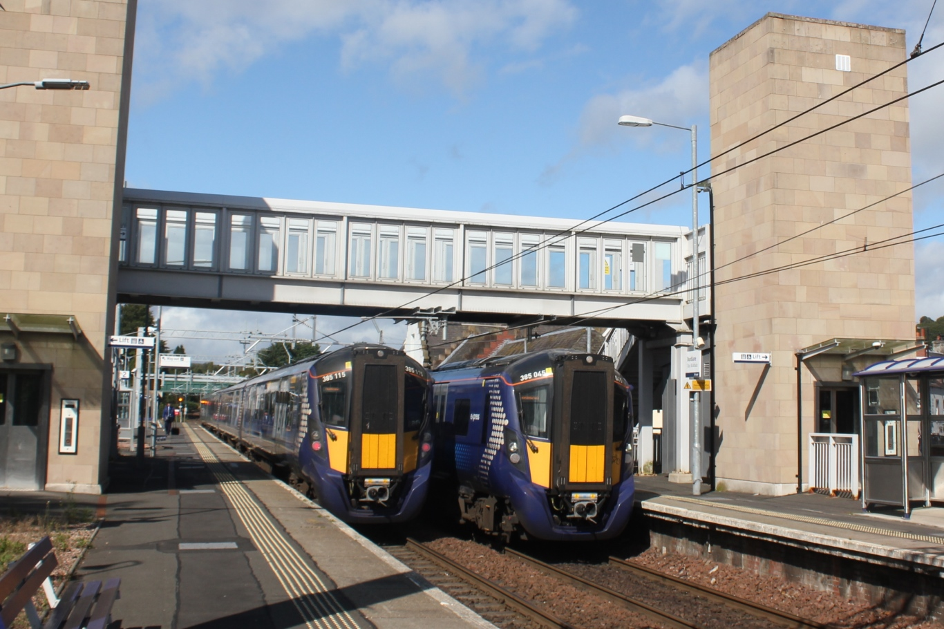 Abellio ScotRail's four-car 385115 has just arrived at Dunblane from Edinburgh where it finds three-car 385045 about to depart for Glasgow Queen Street.